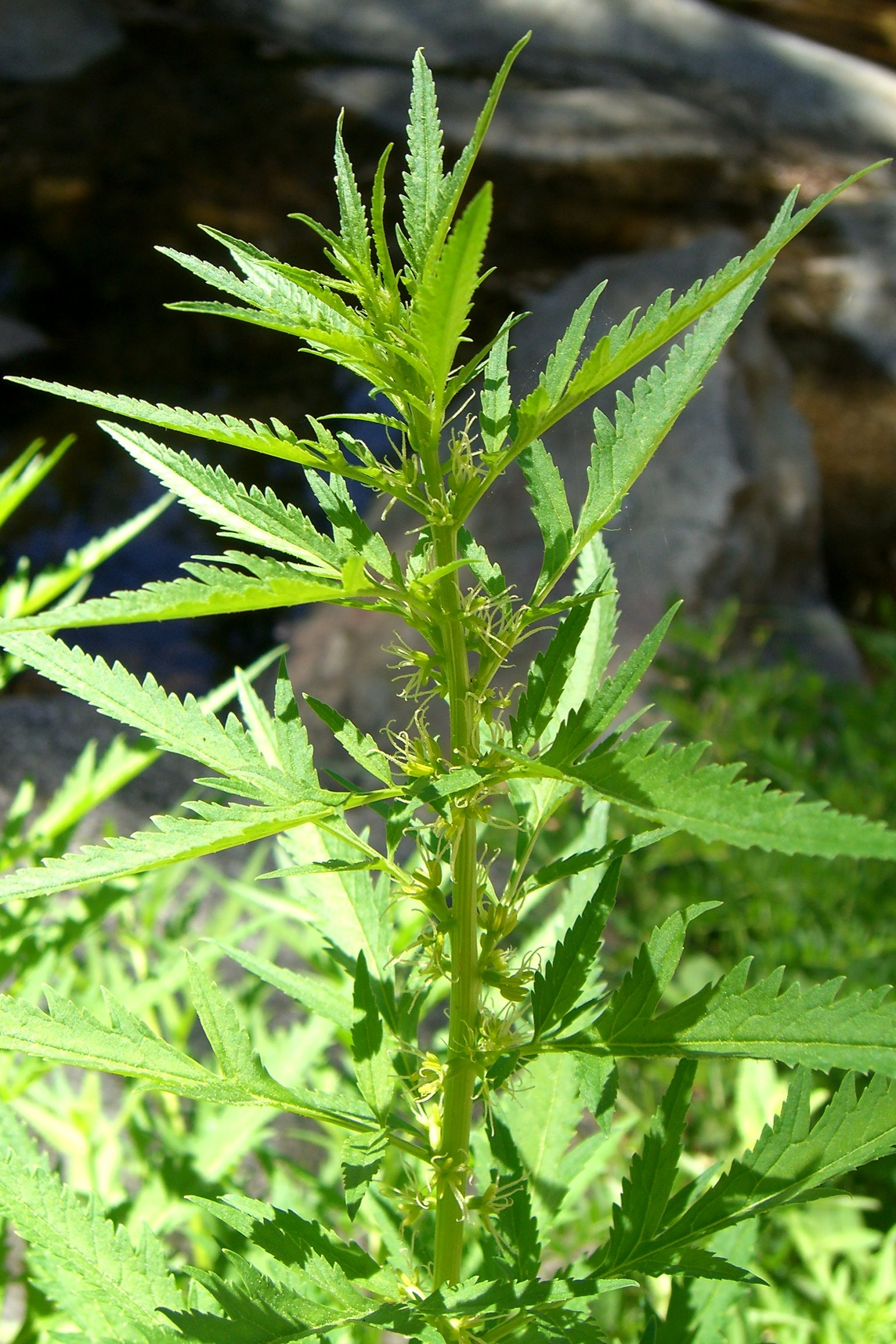 Scientific Name: Datisca glomerata (C. Presl) Baillon Common Name: Durango Root Certainty: positive (notes) Location: California; San Jacinto; Caramba Overlook Trail Date: 20070629